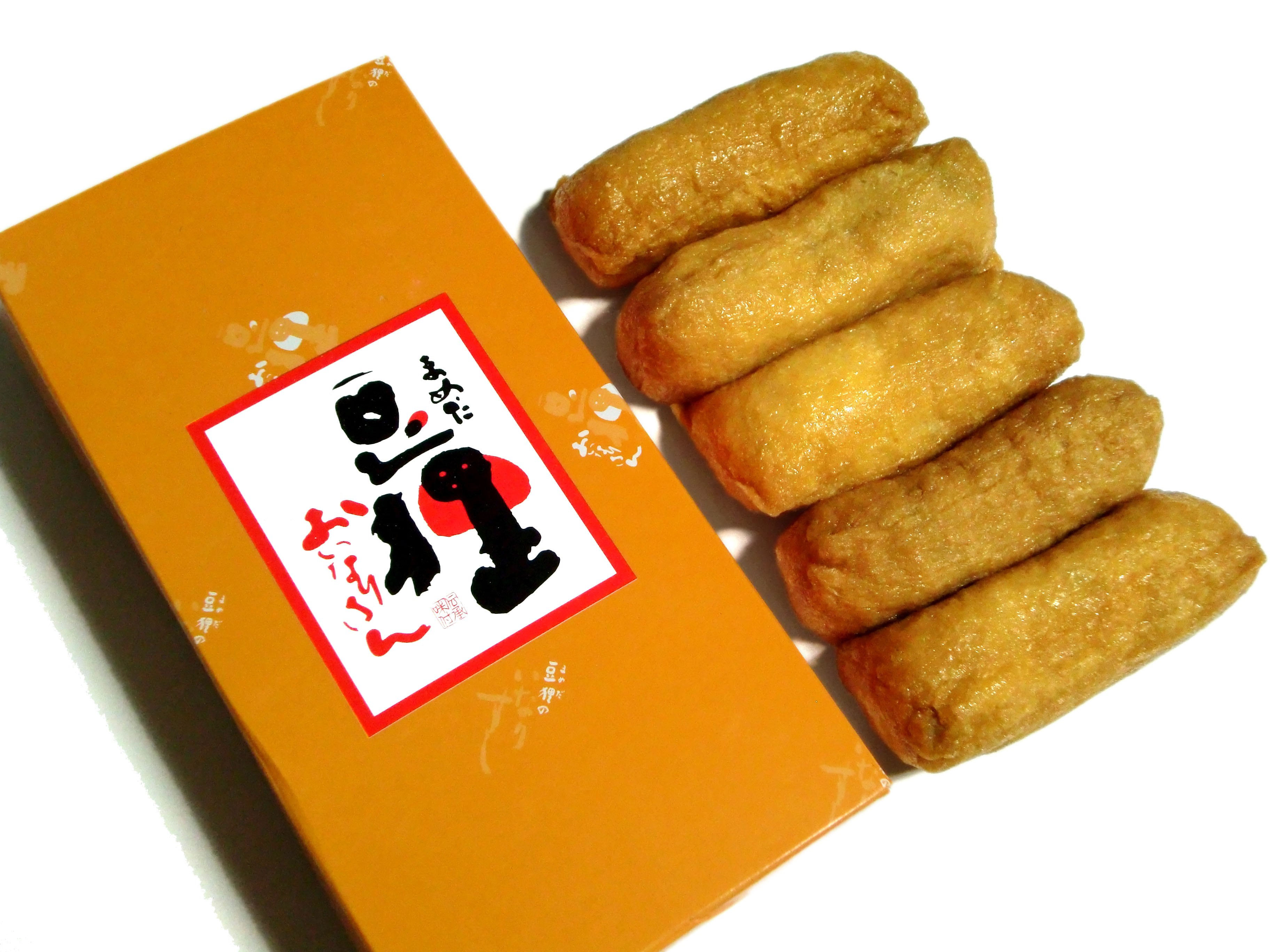 Mameda's INARI-Sushi, 1-32 Nakatsu-1chome Kita-ku Osaka-City Osaka JAPAN.